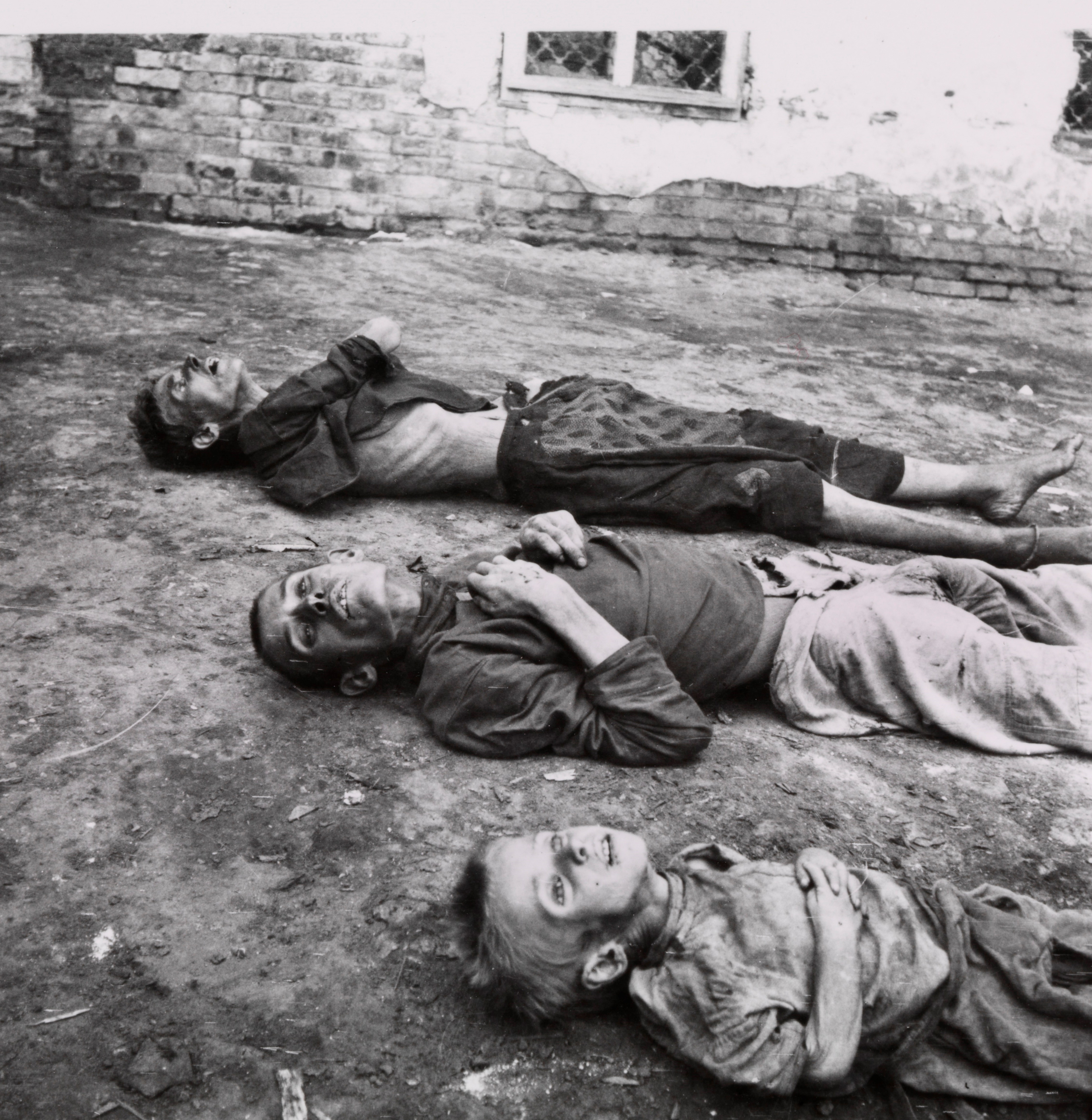 A woman, a man and a child, all three dead from starvation. One of the pictures from Russia in November and December 1921. On assignment from the International Red Cross, Fridtjof Nansen visited the regions that were the hardest hit by famine.